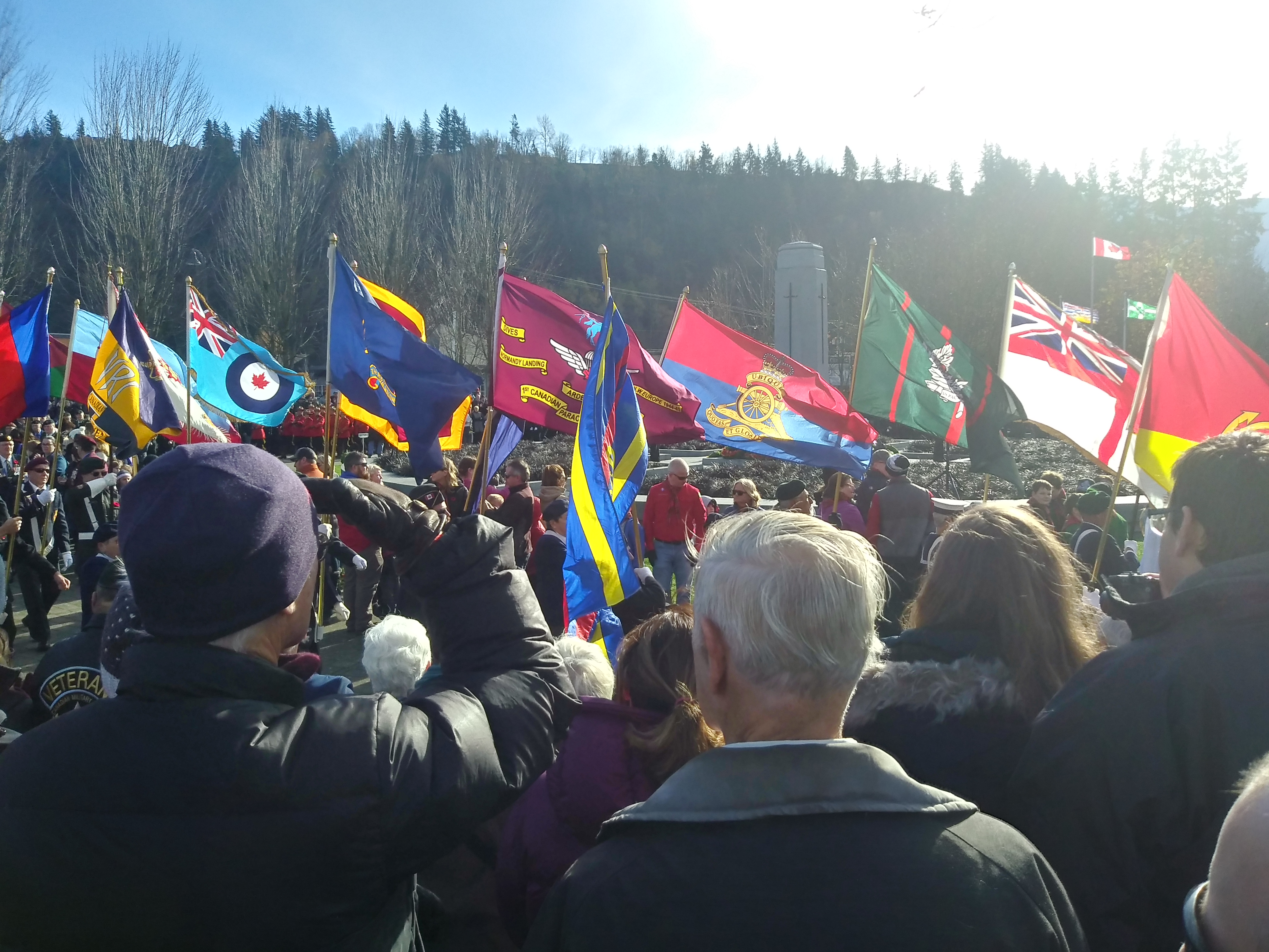 Flags marching at the CFB Chilliwack memorial at Keith Wilson and Vedder